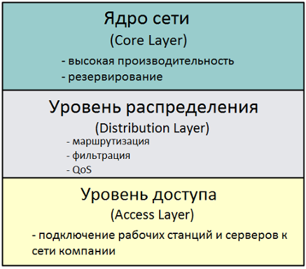 Hierarchical Internetworking Model